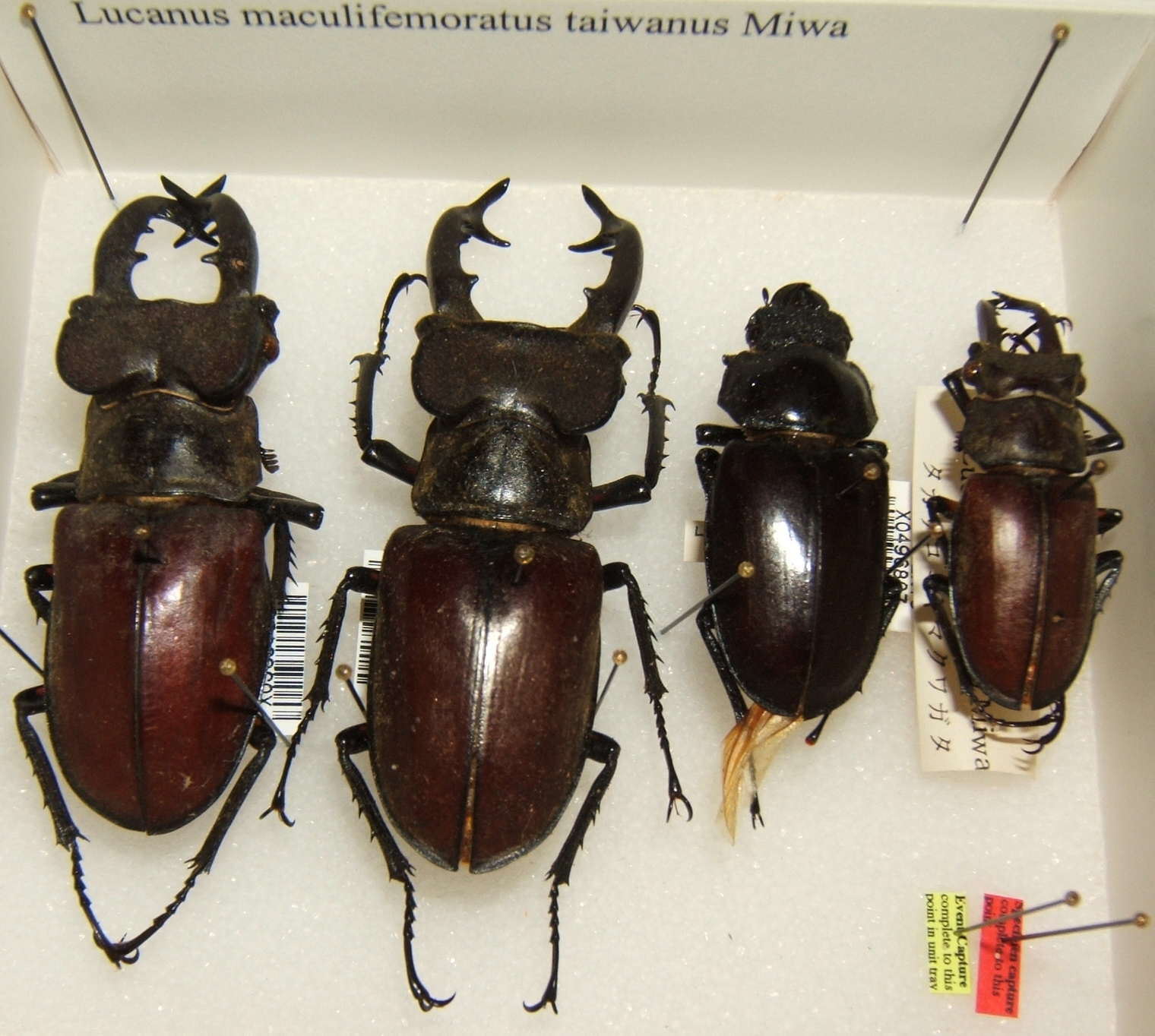 Lucanus maculifemoratus taiwanus adult taken by Shawn Hanrahan at the Texas A&M University Insect Collection in College Station, Texas.